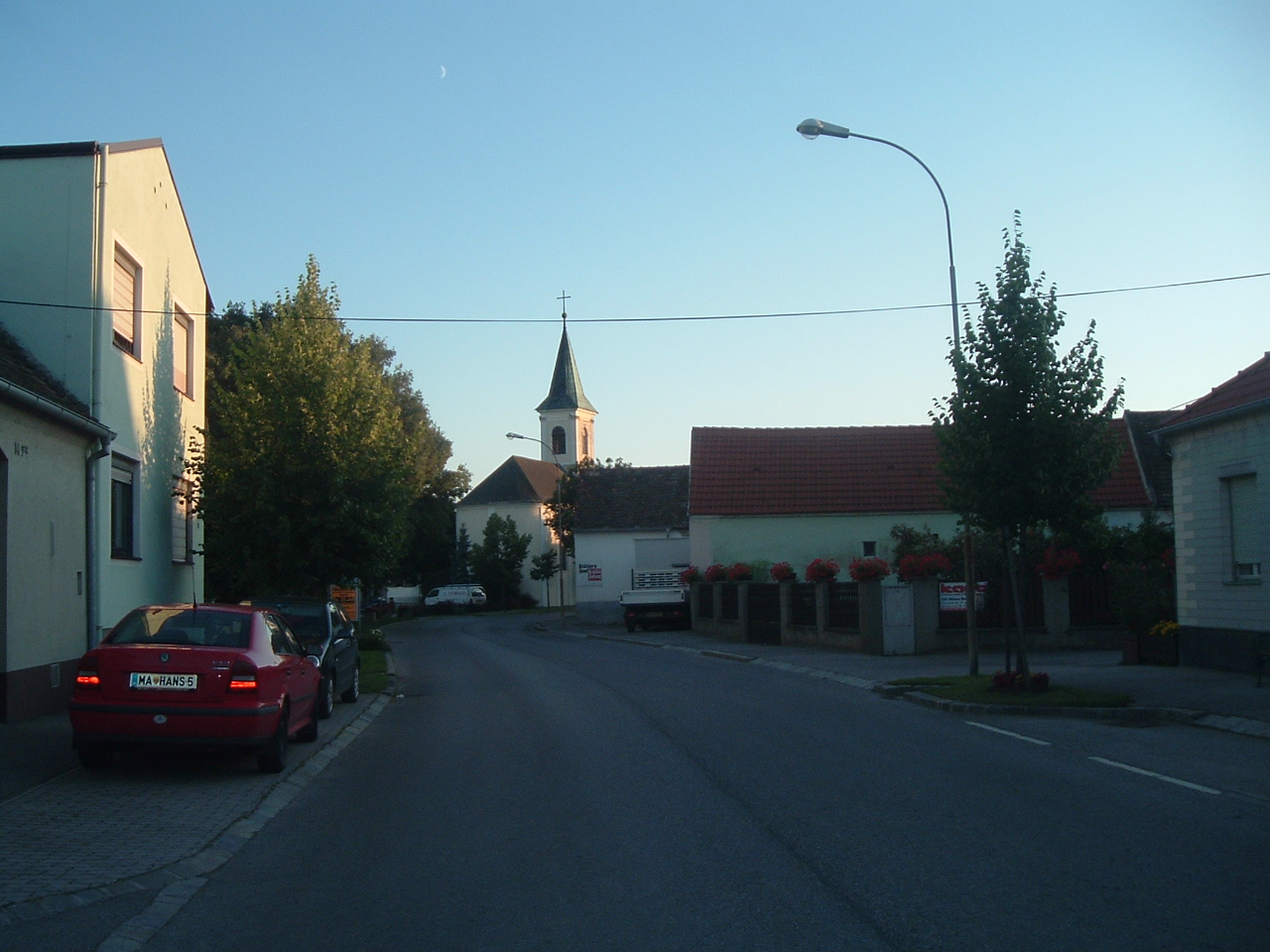 Stöttera, Austria